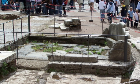 Lapis Niger in the Comitium in front of the Curia Julia (Forum Romanum, Rome)